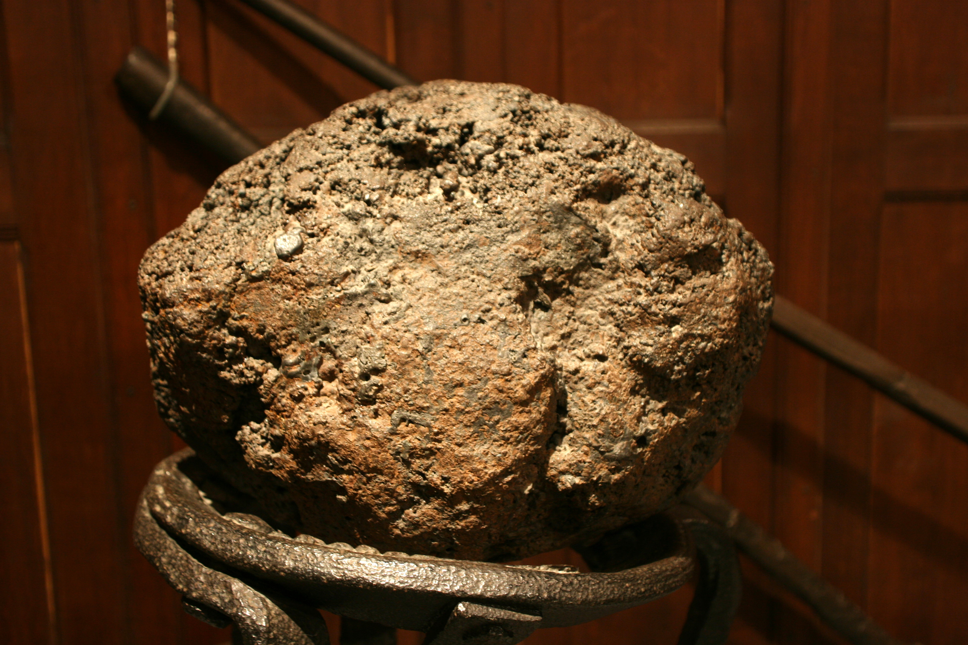 Clump of osmond iron in the museum of Burg Altena in Altena